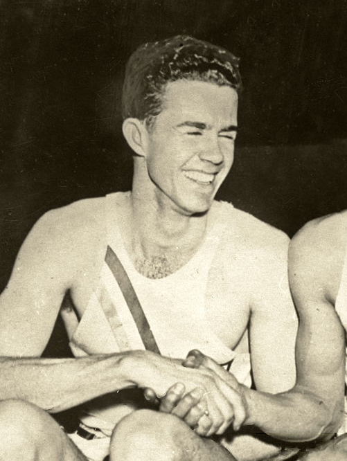 Pole vault jumper Earle Meadows at the Berlin Olympics.